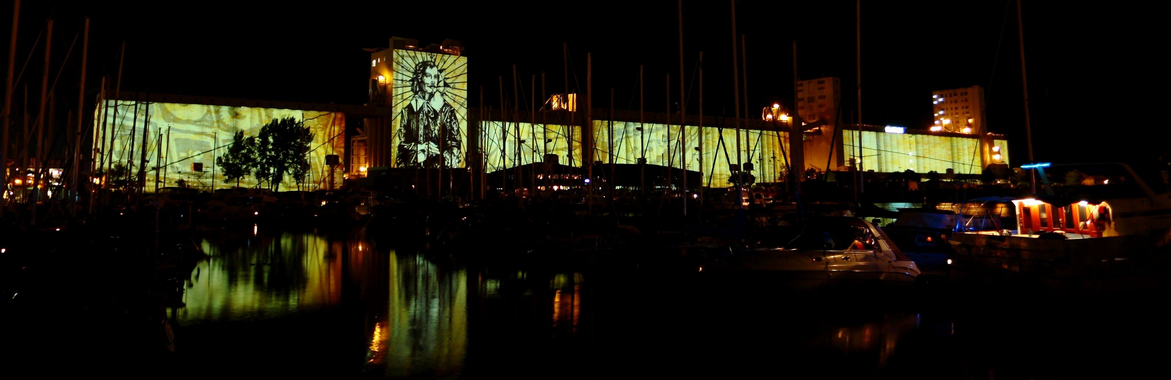 View of the "Moulin à images" at Québec city, Québec, Canada.